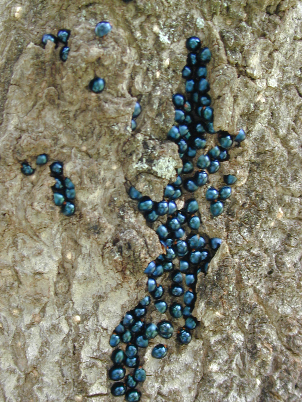 Melaleuca quinquenervia (Curinus coeruleus clustered). Location: Maui, Kapalua